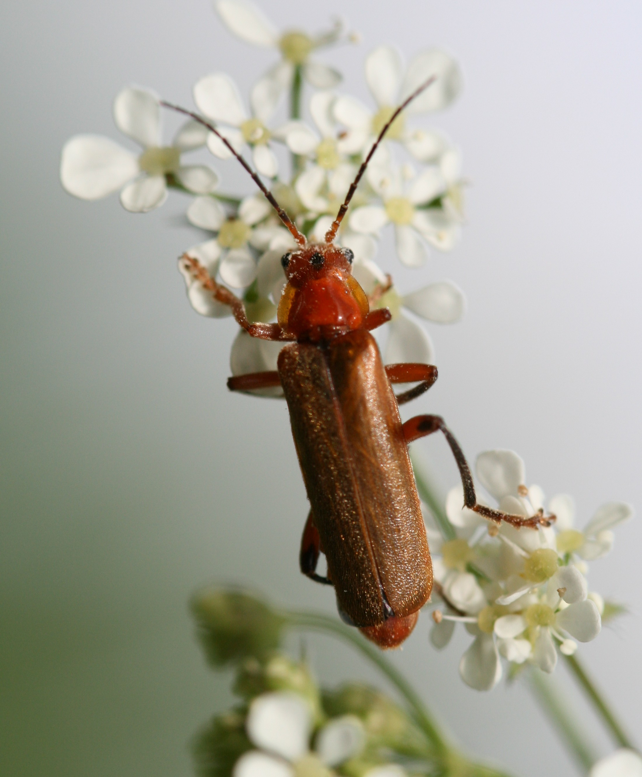 Cantharis livida, a Soldier Beetle.